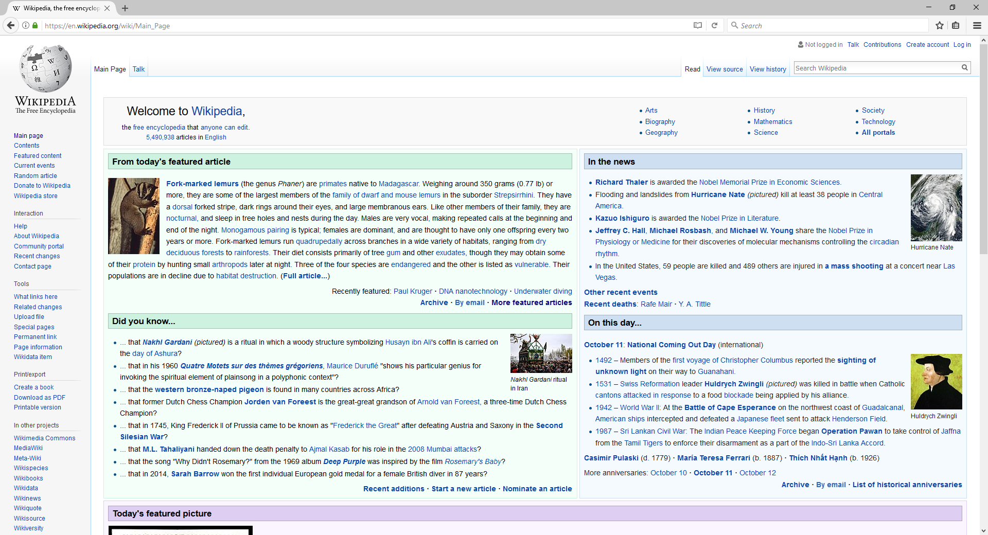 A screenshot of the most recent version of Waterfox on .